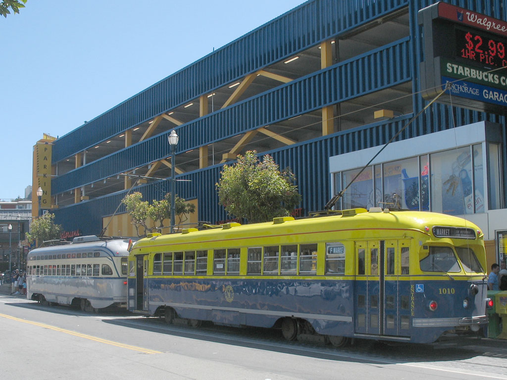 A single-ended PCC and a double-ended PCC at Fisherman's Wharf, San Francisco.